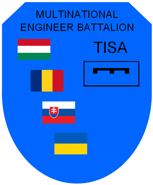 Sleeve patch Emblem of Multinational Engineer Battalion Tisa